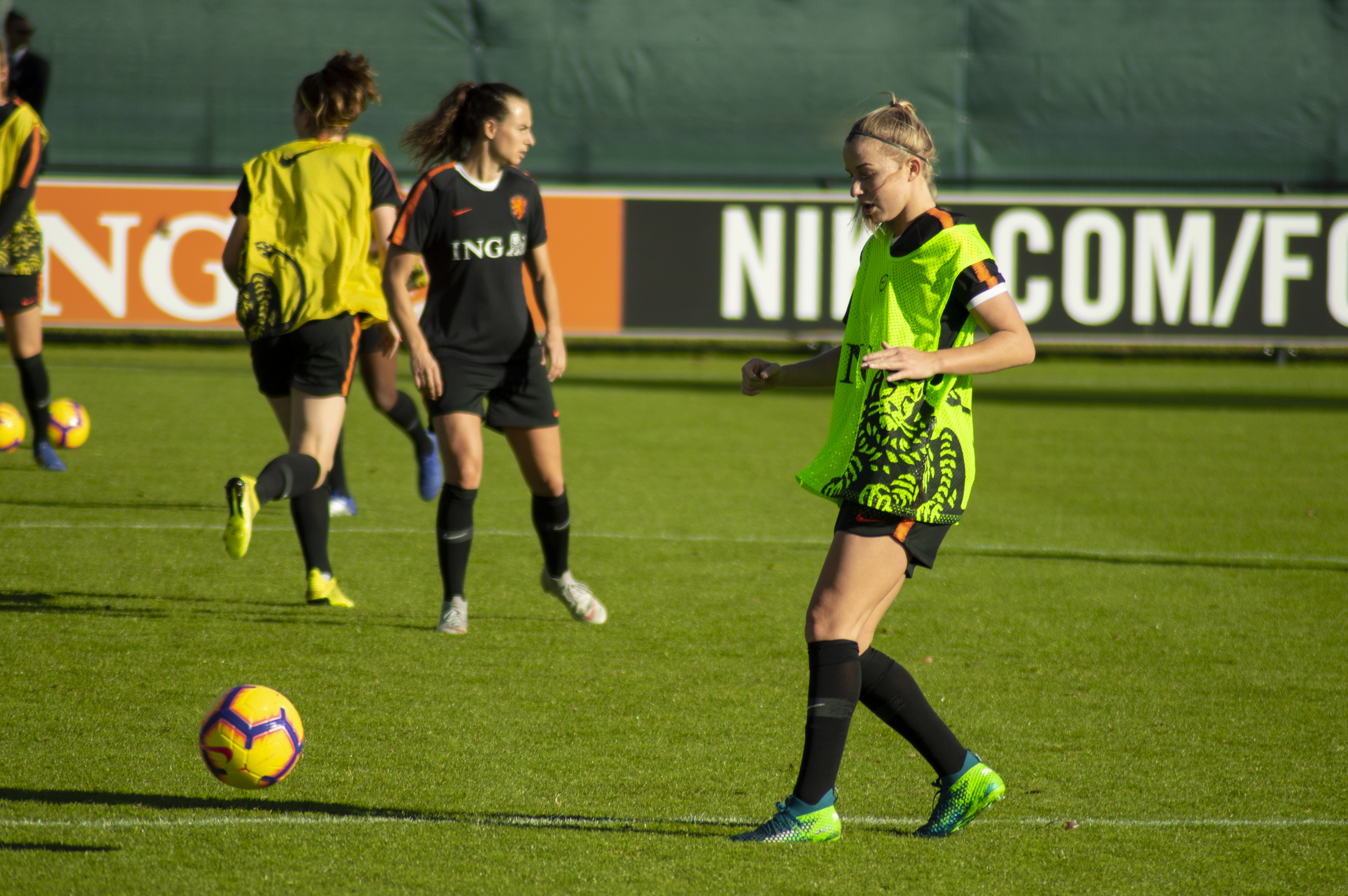 Jackie Groenen training with the Netherlands women's national football team on November 6, 2018.